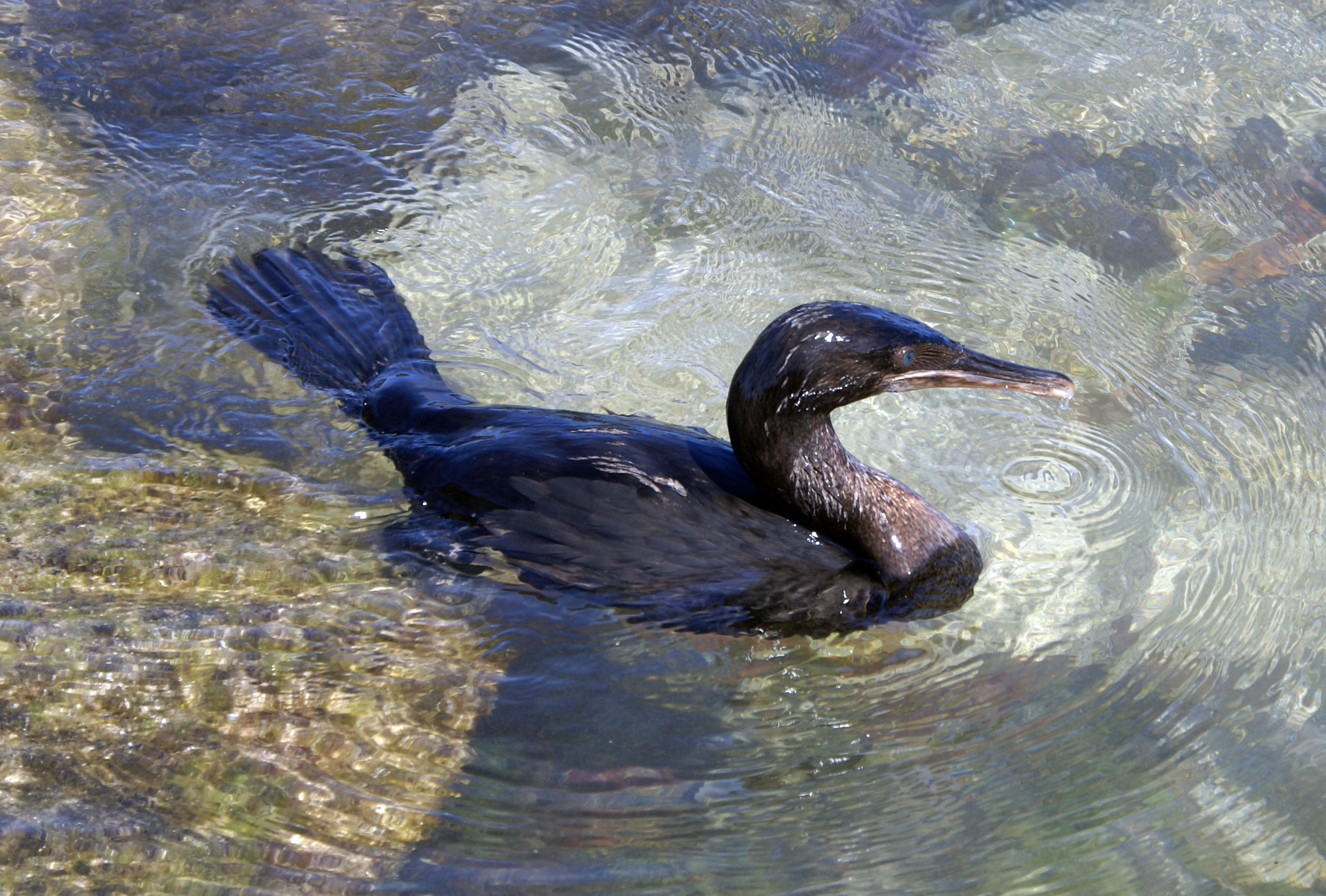 Flightless Cormorant (Phalacrocorax harrisi), also known as the Galapagos Cormorant. Fernandina, Punta Espinosa